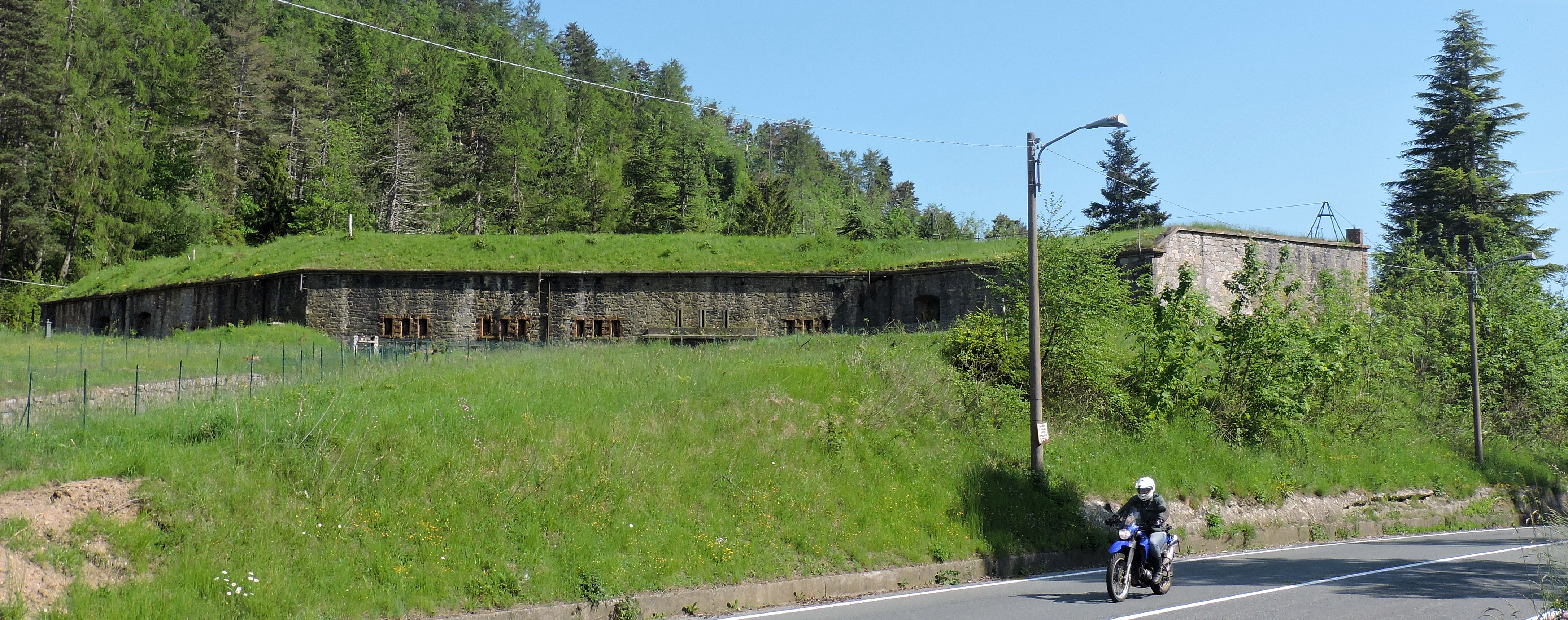 Colle di Nava (Italy, Ligurian Alps): Forte Centrale, a XIX century fortress